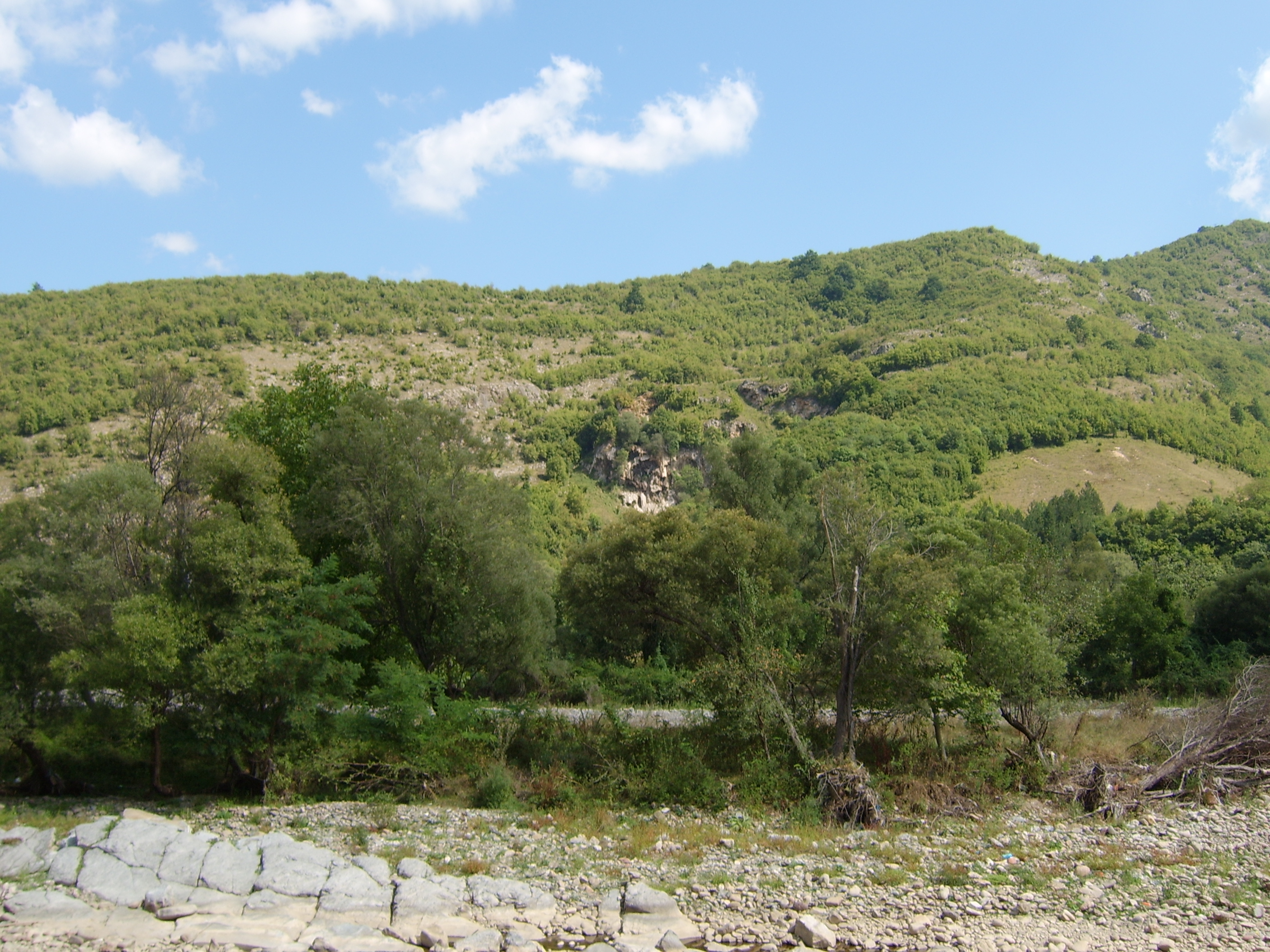 The waterfall near village Glozhene, Bulgaria